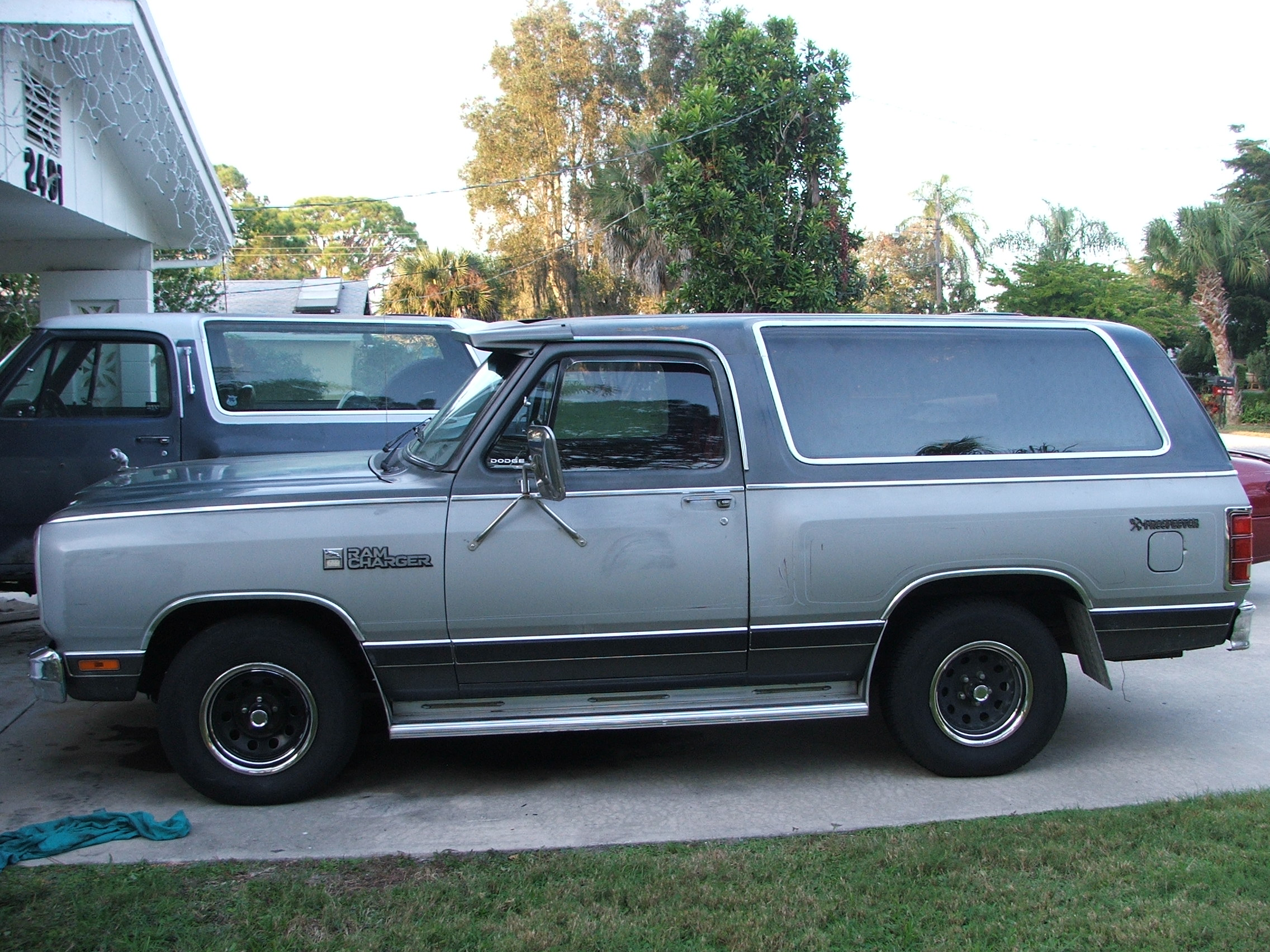 1984 Dodge Ramcharger Prospector 2 wheel drive. I took this picture on January 19, 2007. The source is my camera.